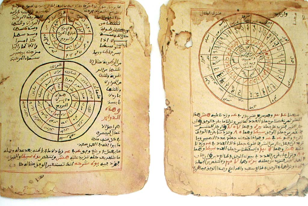 Image of Timbuktu manuscripts.